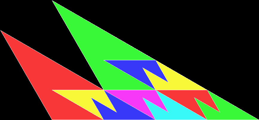 A rep-tile tetradrafter, or shape created from four 30-60-90° triangles that can be divided into smaller copies of itself.